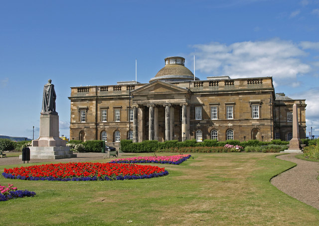 Wellington Square Gardens, Ayr With the County Buildings forming the background.